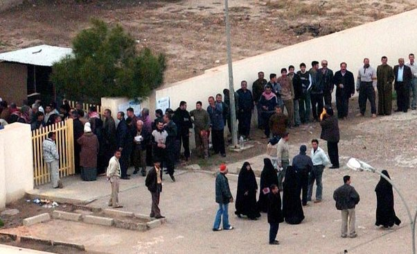 Iraqi voters wait in line to cast their vote at one of the polling sites in Baghdad, Iraq, Jan. 30, 2005. U.S. Air Force photo by Master Sgt. Dave Ahlschwede. [1] Cropped version of Image:Iraqi voters in Baghdad.jpg.